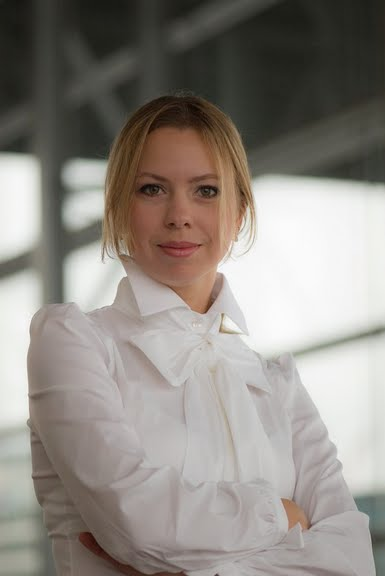 Low resolution photograph of Ukrainian/Dutch composer Svitlana Azarova taken in November 2009 in Muziekgebouw Aan 't IJ by Michel Marang